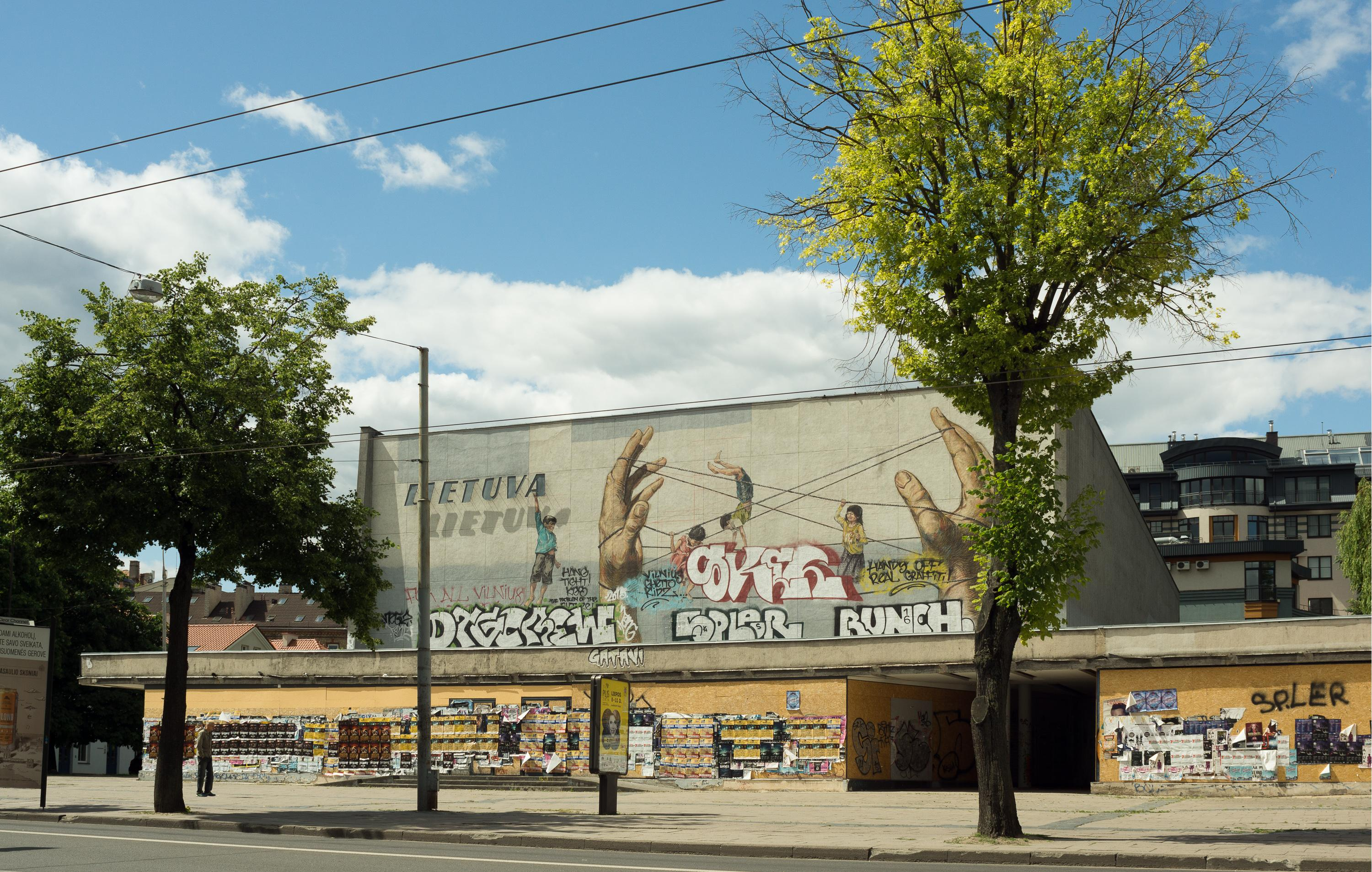 Abandoned Lietuva cinema theater in Vilnius, Lithuania.